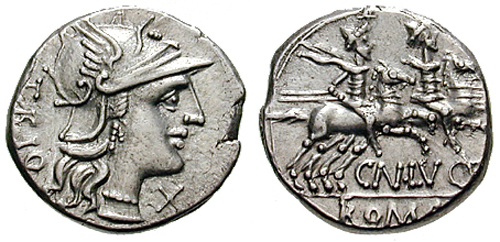 Cn. Lucretius Trio. 136 B.C. AR Denarius. TRIO, helmeted head of Dea Roma, X before Dioscuri r.; below, CN. LVCR.; ROMA in ex. Bab 1 Syd 450, Cr237/1